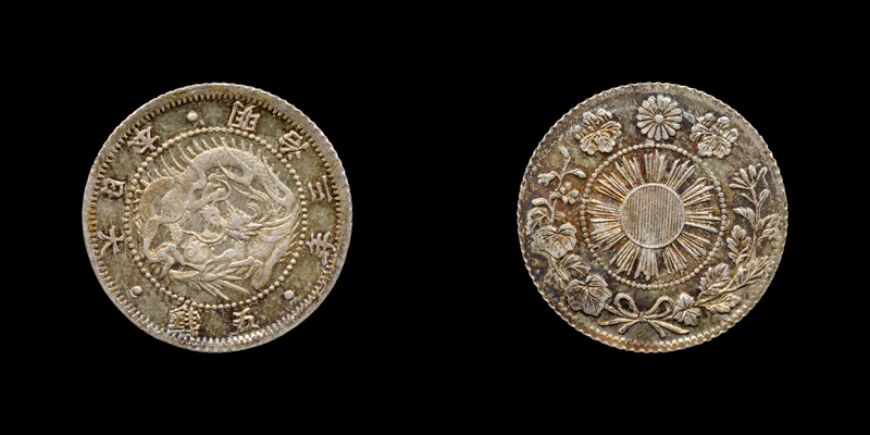 5sen-M3